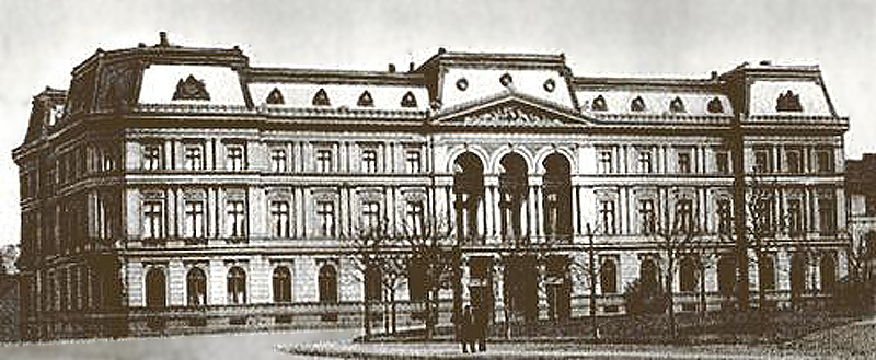 Kronenberg Palace in Warsaw. The palace was built between 1868-71 by Bolesław Paweł Podczaszyński according to design by Georg Friedrich Heinrich Hitzig. The facade was adorned with sculptures by Leonard Marconi. Burned down in September 1939 as a result of severe aerial bombardment by the Germans (incendiary bombing).[1]